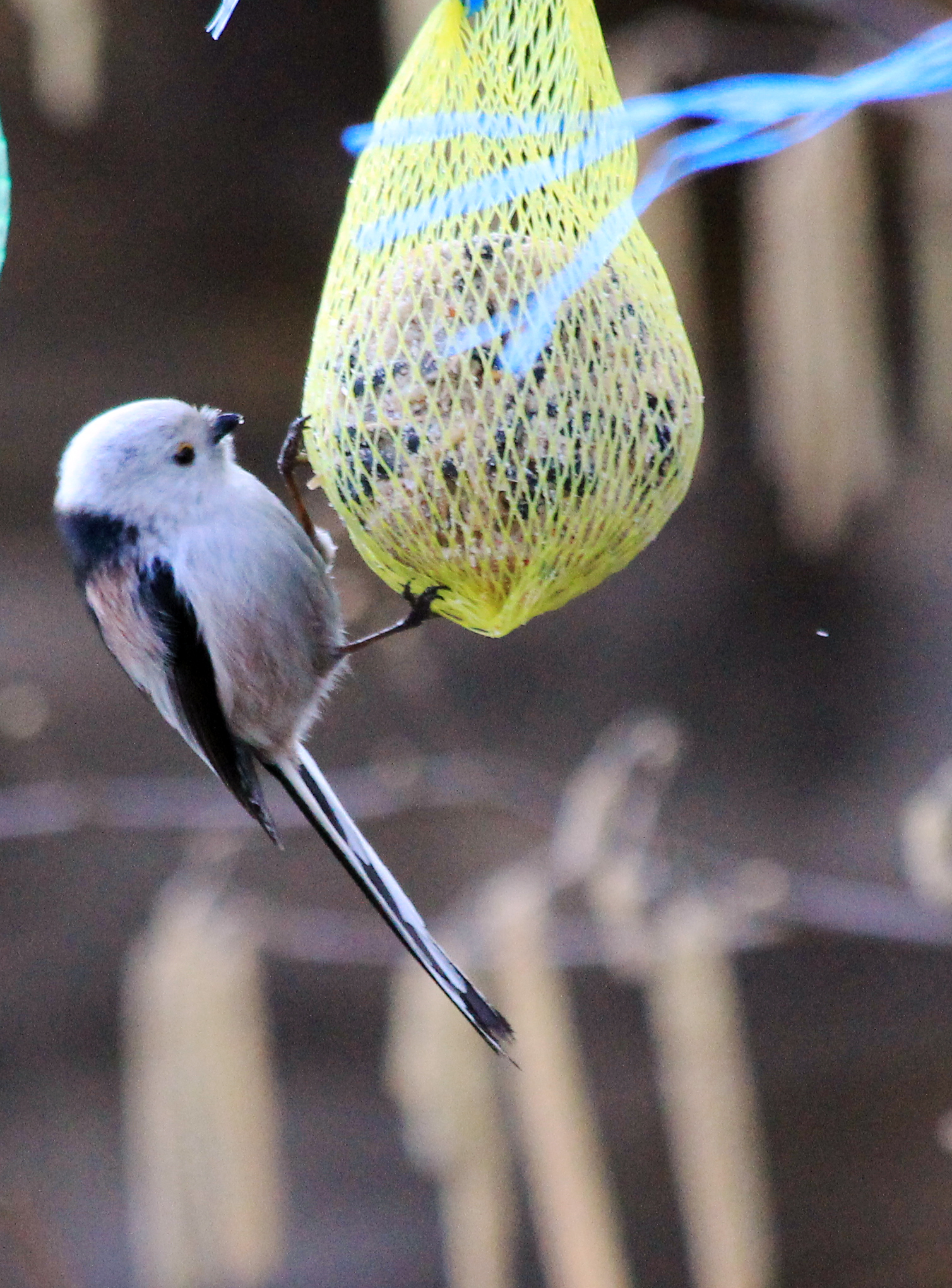 Bird Long-tailed Tit , Aegithalos caudatus in Jaroměř, Czech Republic